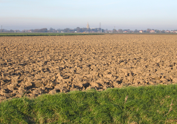 Farmland near Bicker Bar, Lincs. View N across the square from the A52 Donington Road towards Swineshead church in the distance.